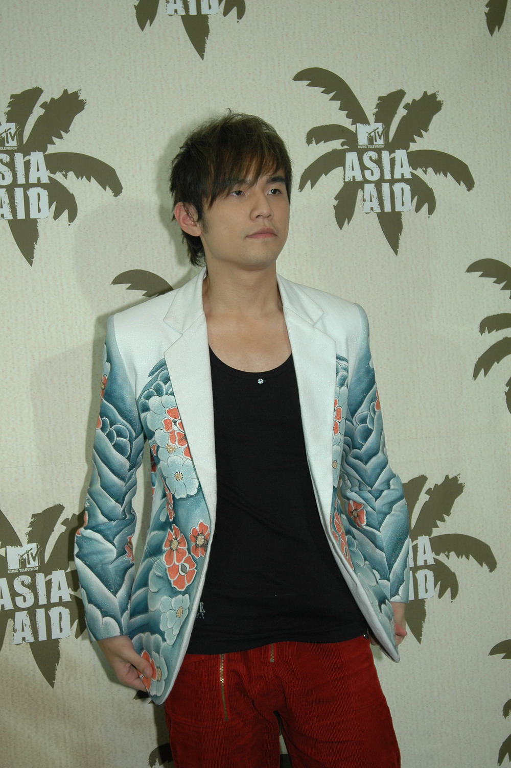 Jay Chou participated in the "MTV Asia Aid 2005" program.